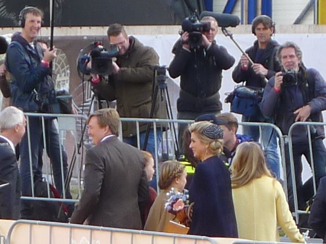 The Dutch King Willem-Alexander and his family during the celebration of King's Day 2017 in Tilburg, The Netherlands